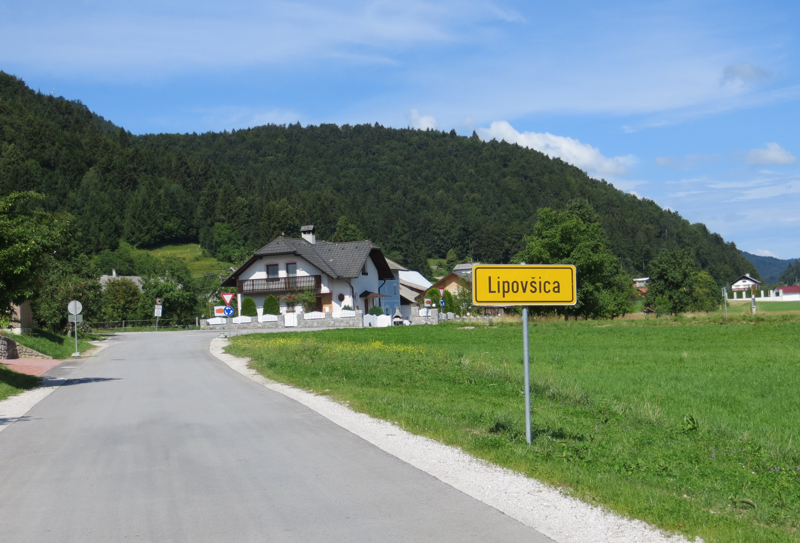 Lipovšica, Municipality of Sodražica, Slovenia